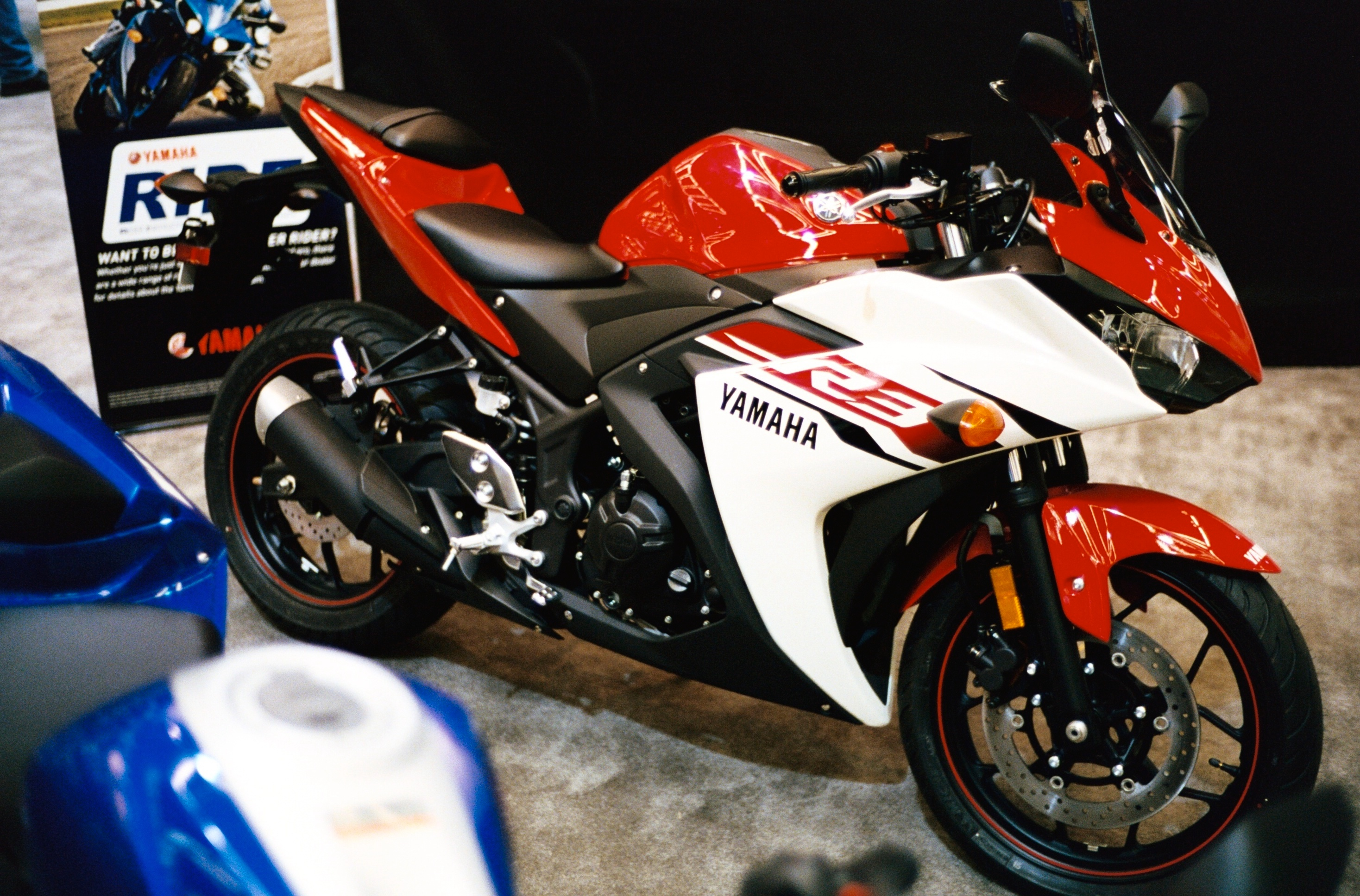 2015 Yamaha YZF-R3 at the 2014–2015 Seattle International Motorcycle Show in the Washington State Convention Center